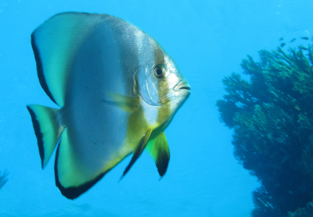 Orbicular spadefish, Platax orbicularis at Marsa Shouna, Red Sea, Egypt #SCUBA